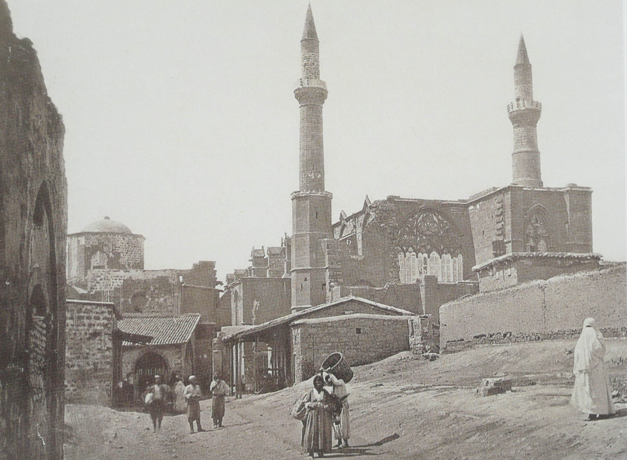 Selimiye Mosque in 1878 autumn